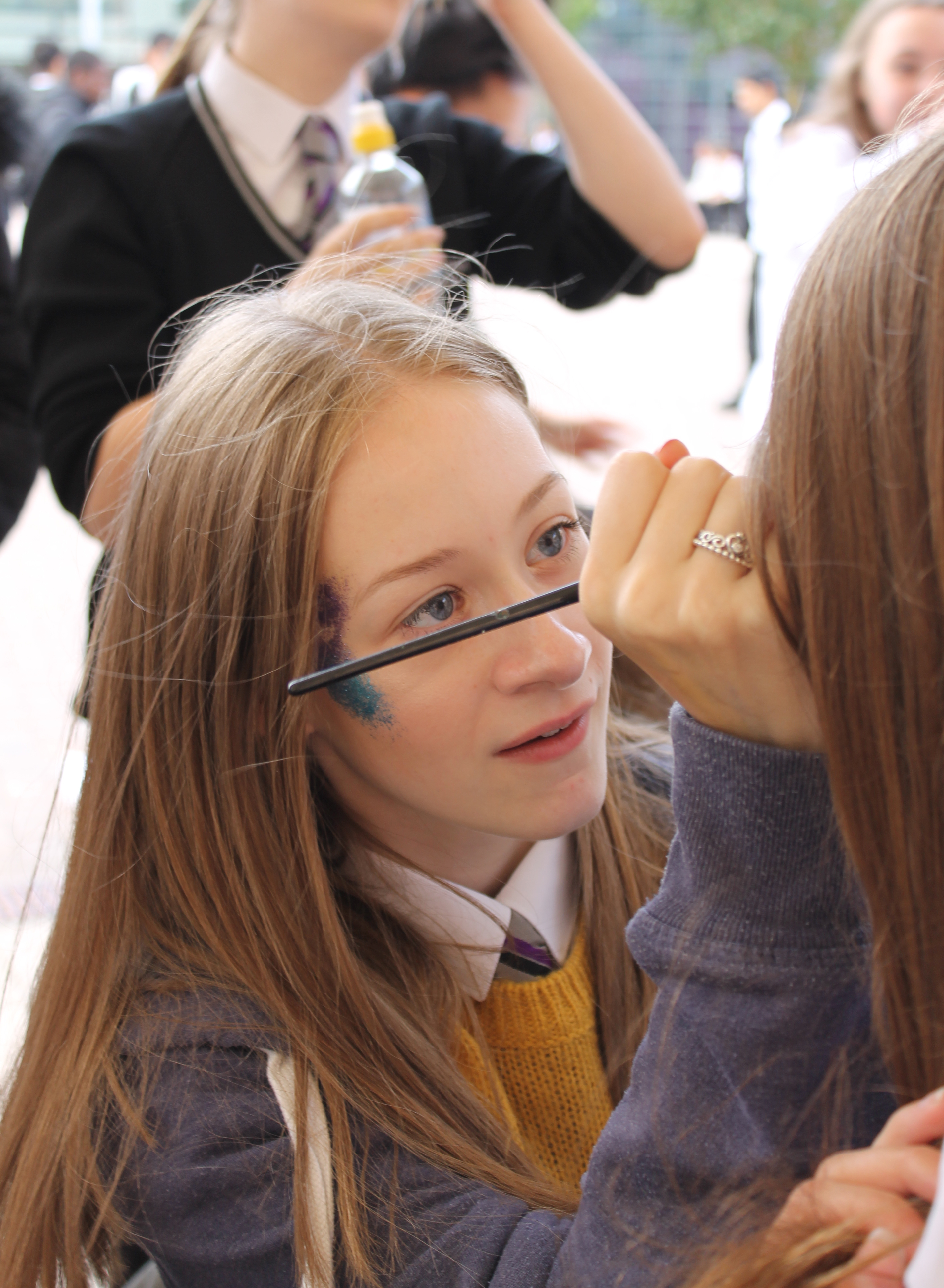 Student at Nottingham Academy Pride 2019, face painting another student in support of equality and diversity.